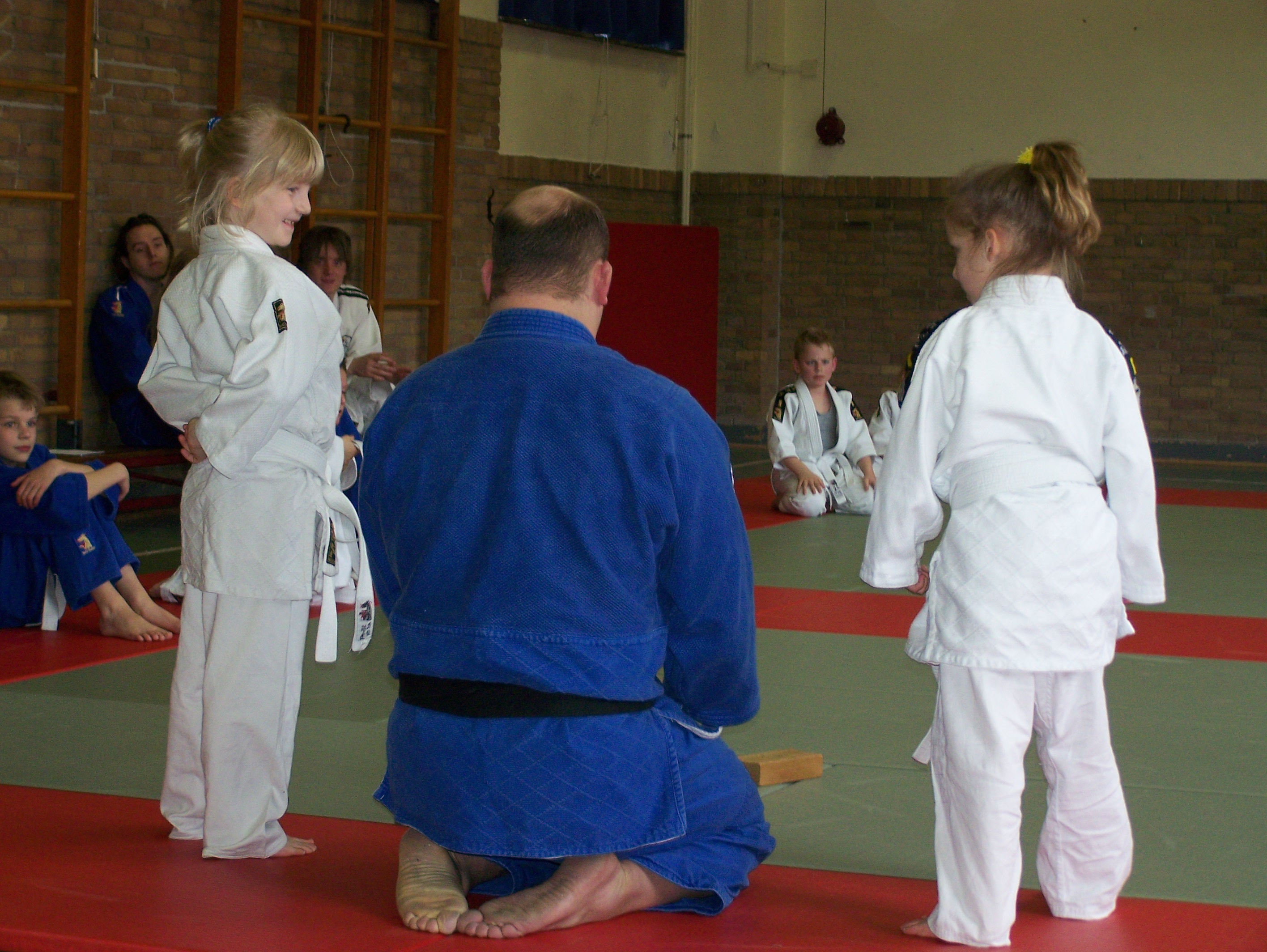 Children and their Judo Master.